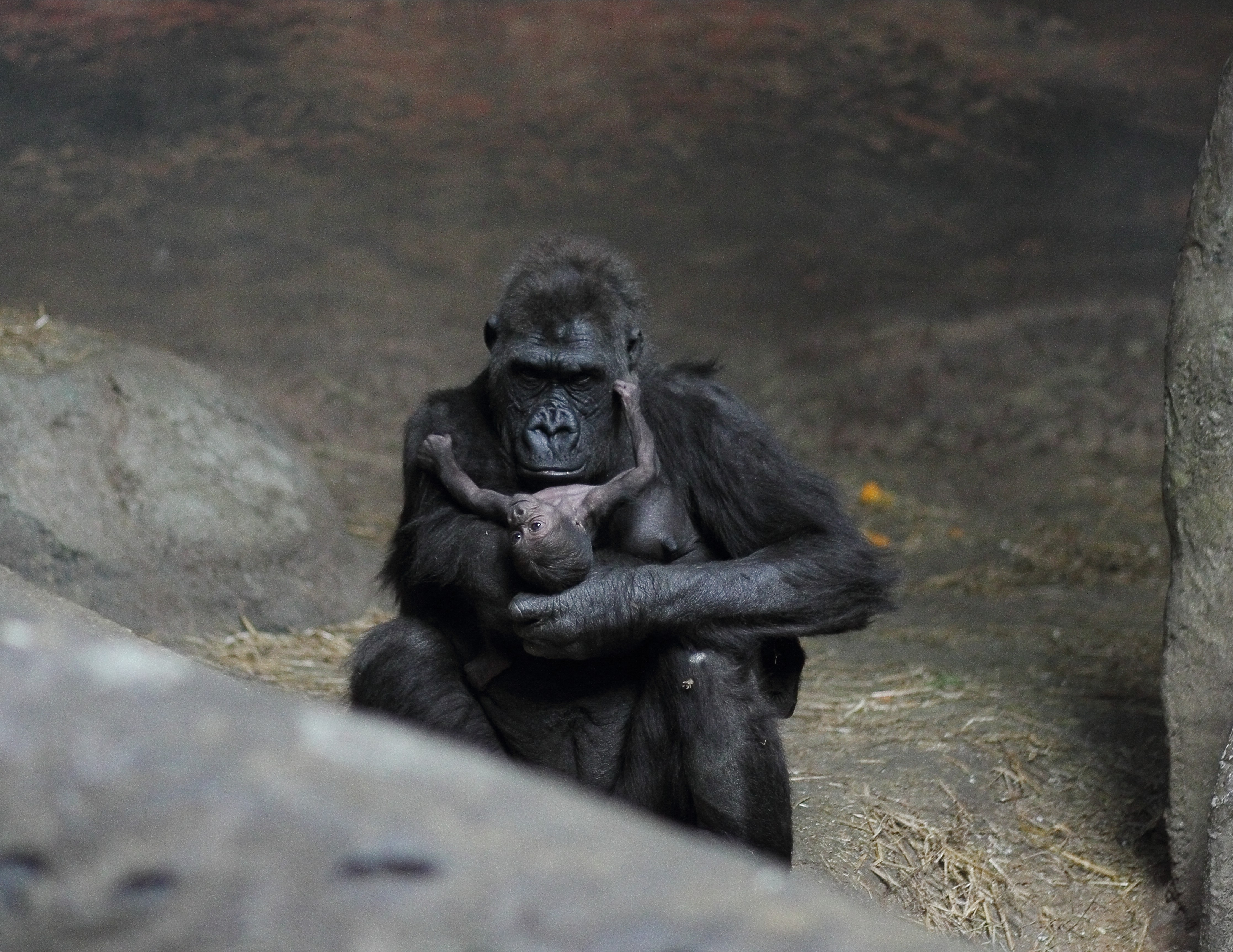 Moka, a fifteen year old female western lowland gorilla at the Pittsburgh Zoo, with her new baby (a male born on February 8 or 9). The baby gorilla's father is a twenty year old silverback named Mrithi.